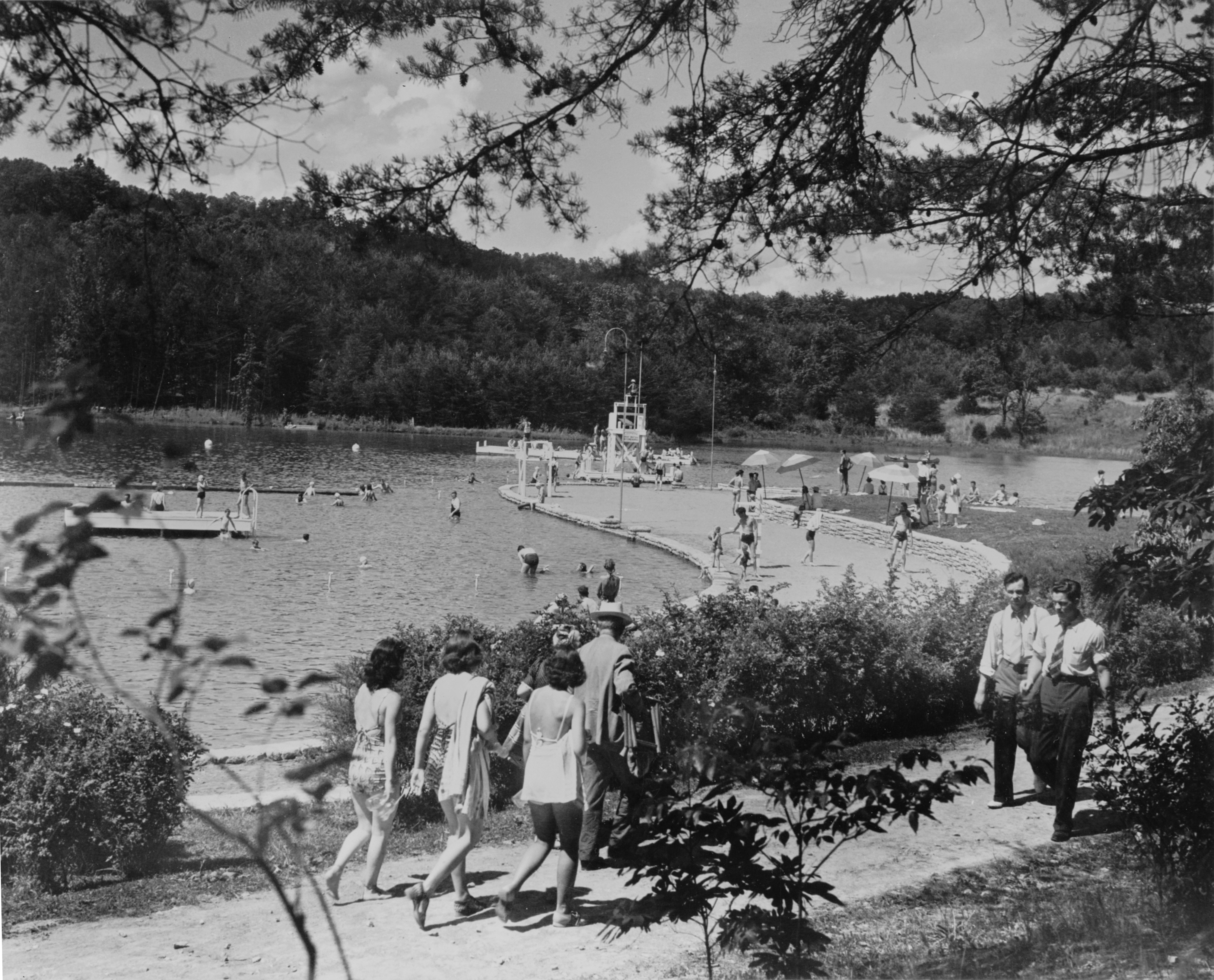 Big Ridge Lake at Big Ridge State Park, Union County, Tennessee. Diving tower, beach and bath house may be seen in the background. This 45-acre lake was formed by construction of a small dam across one of the arms of the Norris Lake reservoir. This recreation area was developed by the National Park Service and the Civilian Conservation Corps in cooperation with the Tennessee Valley Authority (TVA).